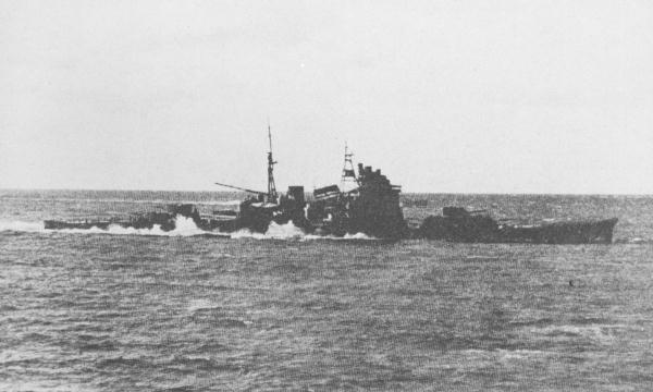 Takao, heavy cruiser of the Imperial Japanese Navy, on cruise at sea.